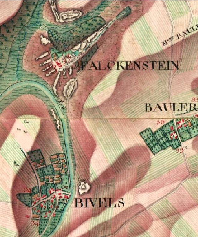 Castle of Falkenstein, Germany, on the map of Ferraris.